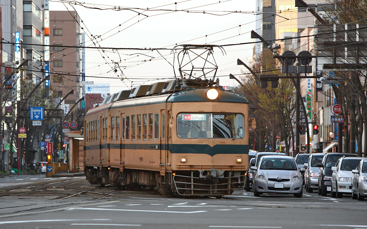 Fukui Railway Type 200 ( 201F )